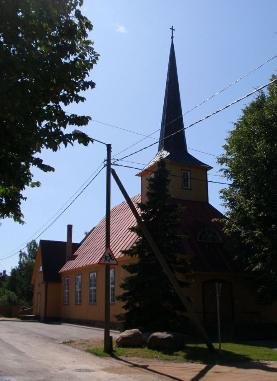 Haapsalu United Methodist Church.